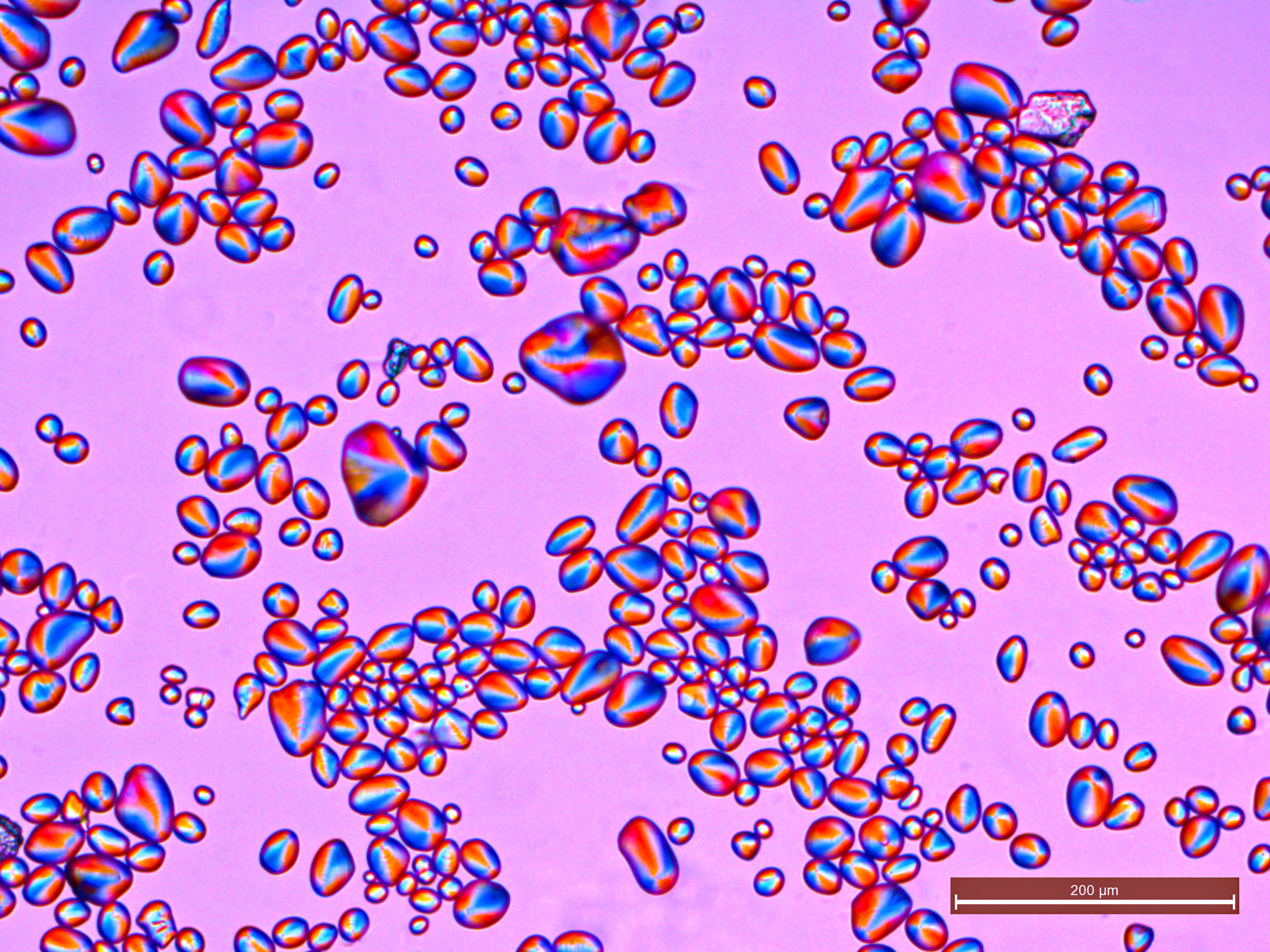 Potato starch under an optical microscope (polarized light, magnification 100Х). Examined under a microscope using a mixture of equal volumes of glycerol and distilled water, potato starch presents transparent, colorless granules, either irregularly shaped, ovoid or pear-shaped, usually 30 μm to 100 μm in size but occasionally exceeding 100 μm, or rounded, 10 μm to 35 μm in size. Starch granules exhibit characteristic dark crosses in polarized light.